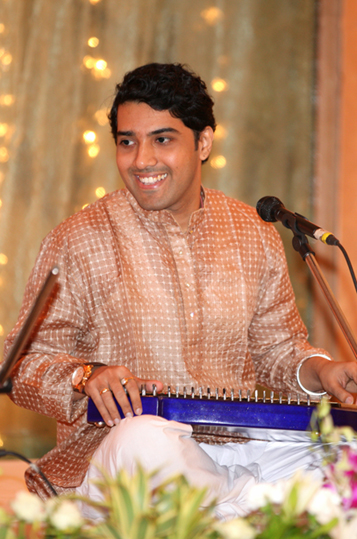 Solo vocalist Samrat Pandit during a concert in Mumbai in 2014, on stage and playing a swarmandal